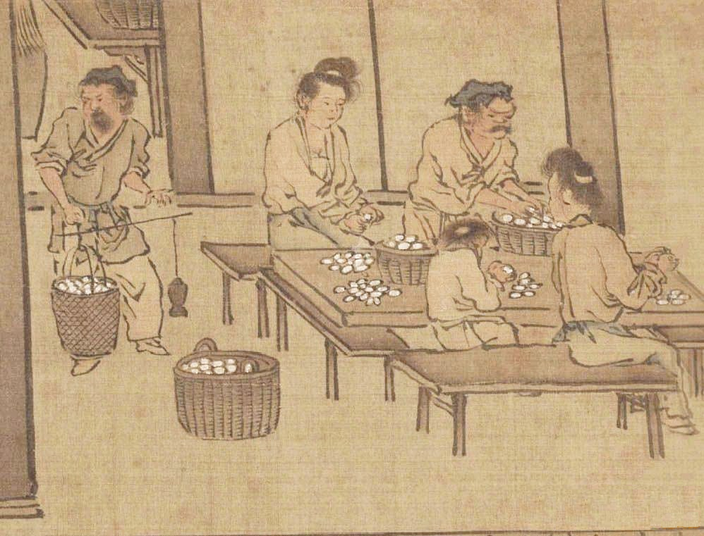 Cropped from Sericulture, The Process of Making Silk (蚕织图), a Chinese Song dynasty painting attributed to Liang Kai (梁楷). Colors adjusted by B_kimmel